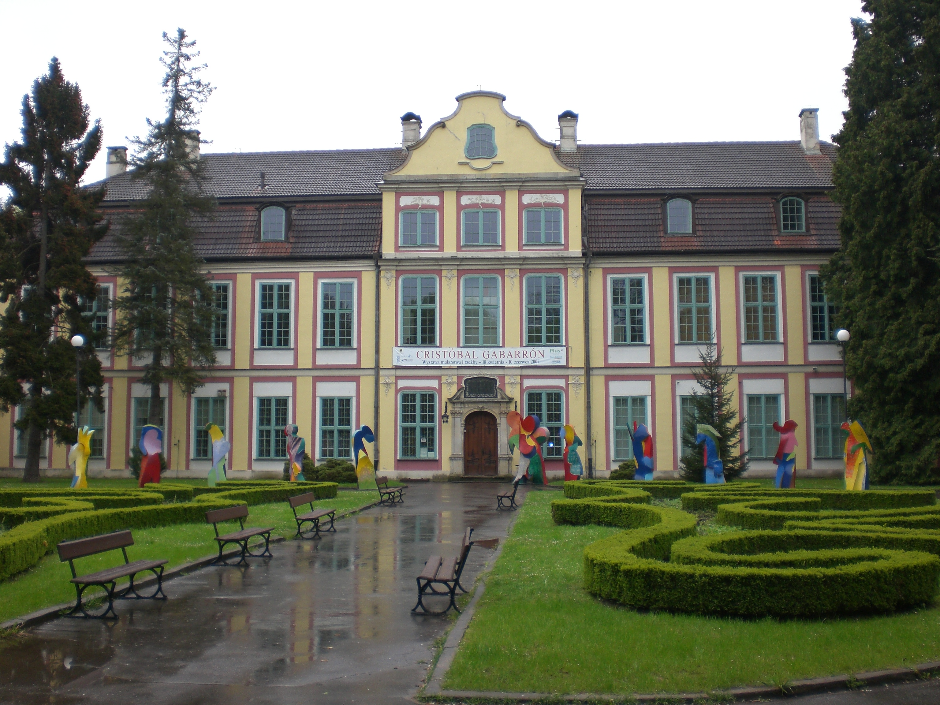 Oliwa Palace in Gdańsk